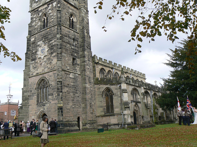 St Nicholas parish church, Nuneaton, Warwickshire, seen from the southwest